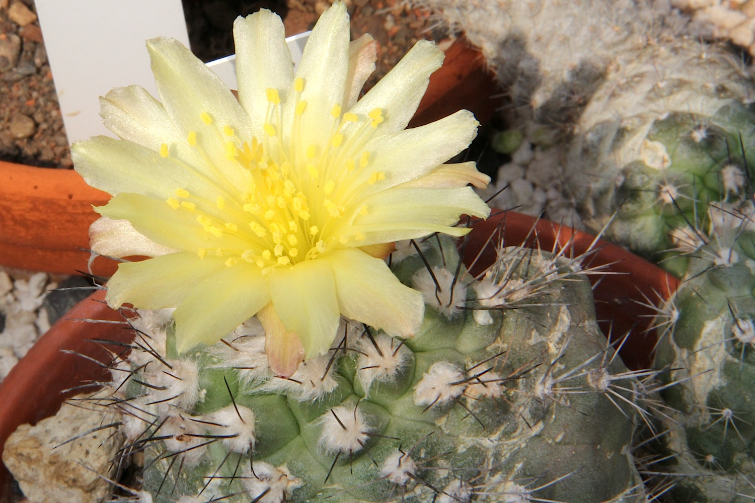 Copiapoa humilis